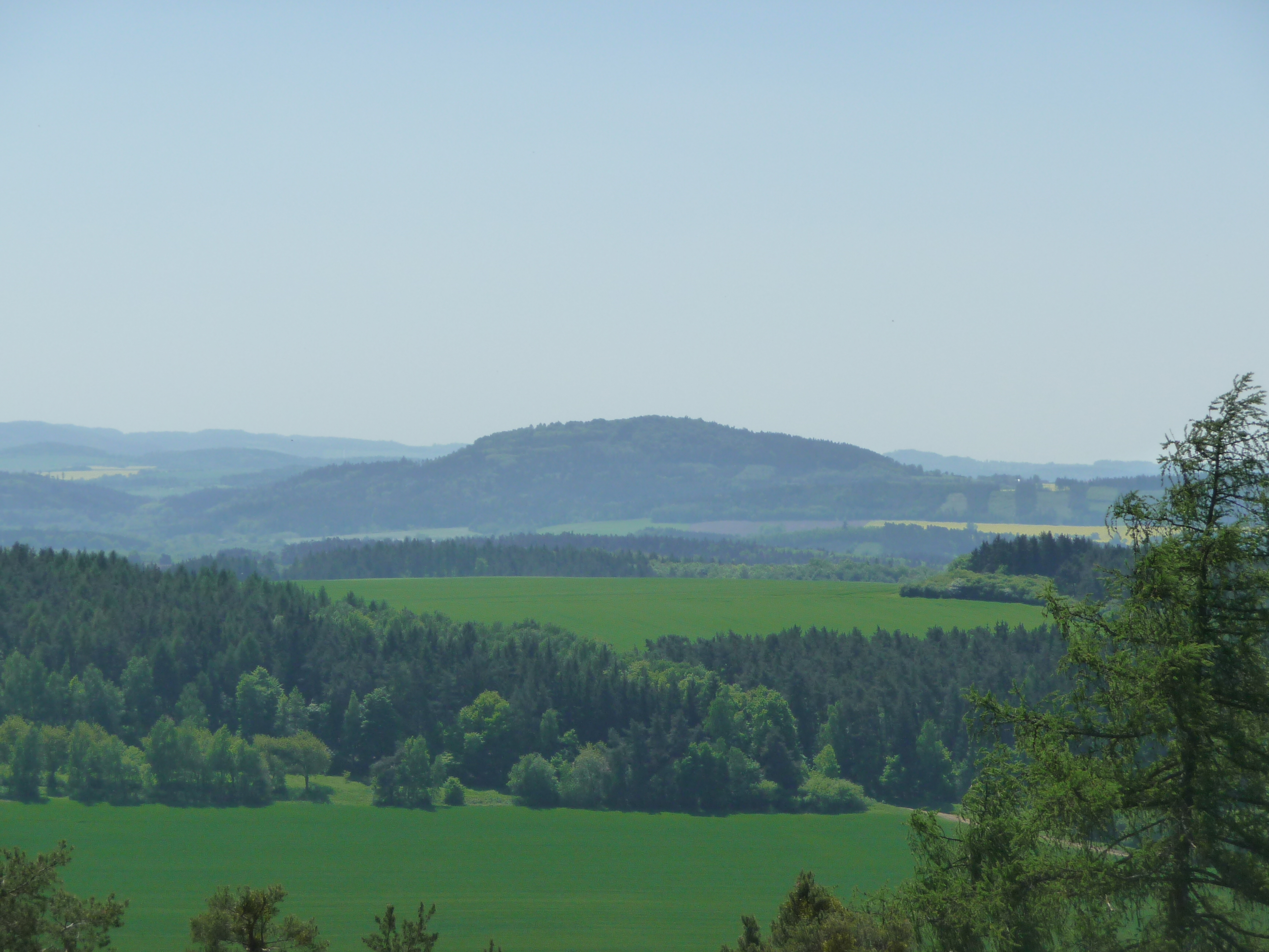 Chlum hill (506 m), near Benešov, Central Bohemia, Czech Republic